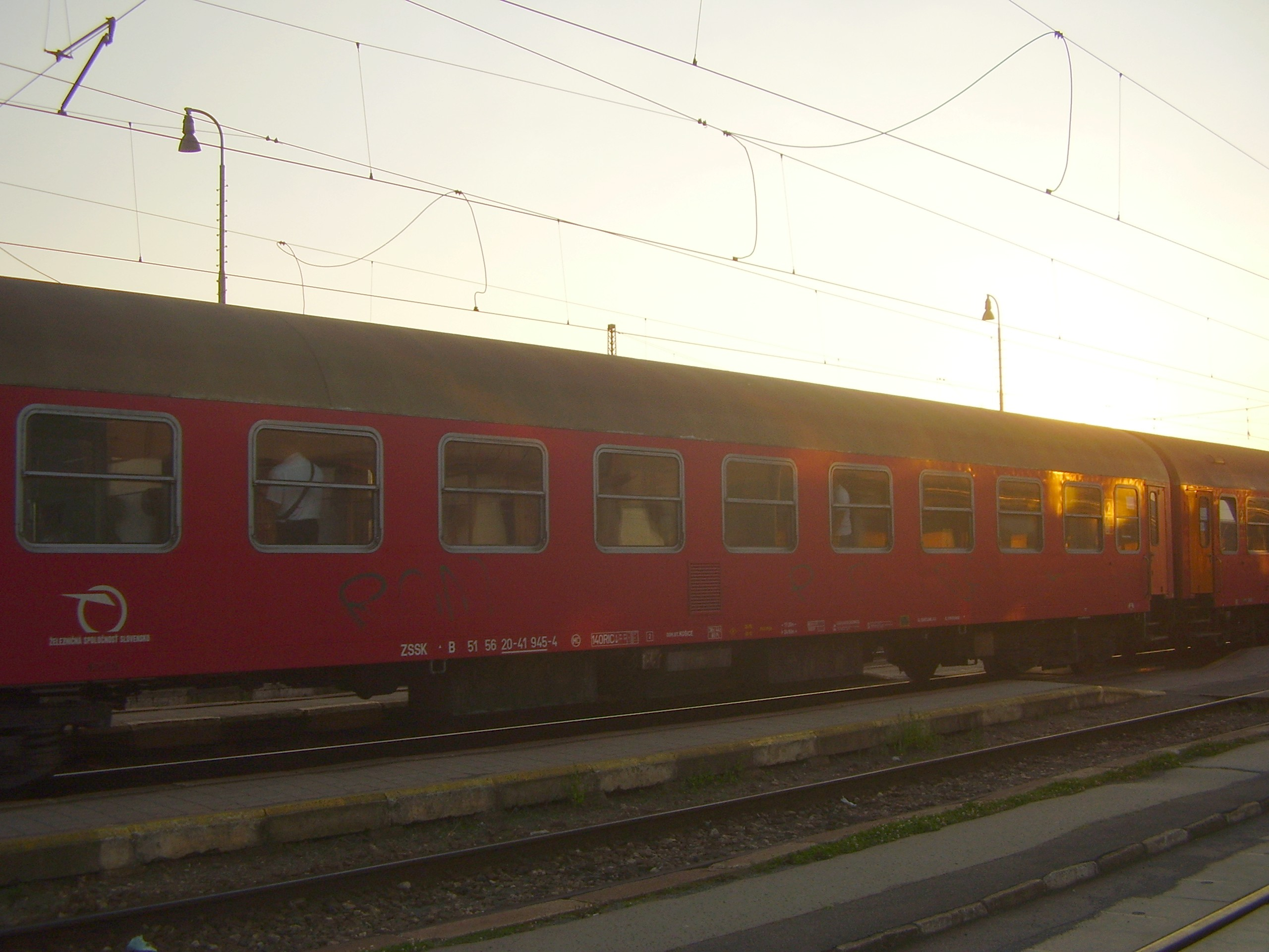 Rail car type B ZSSK